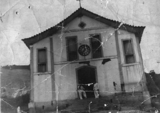 Catholic church of Vermelho Velho